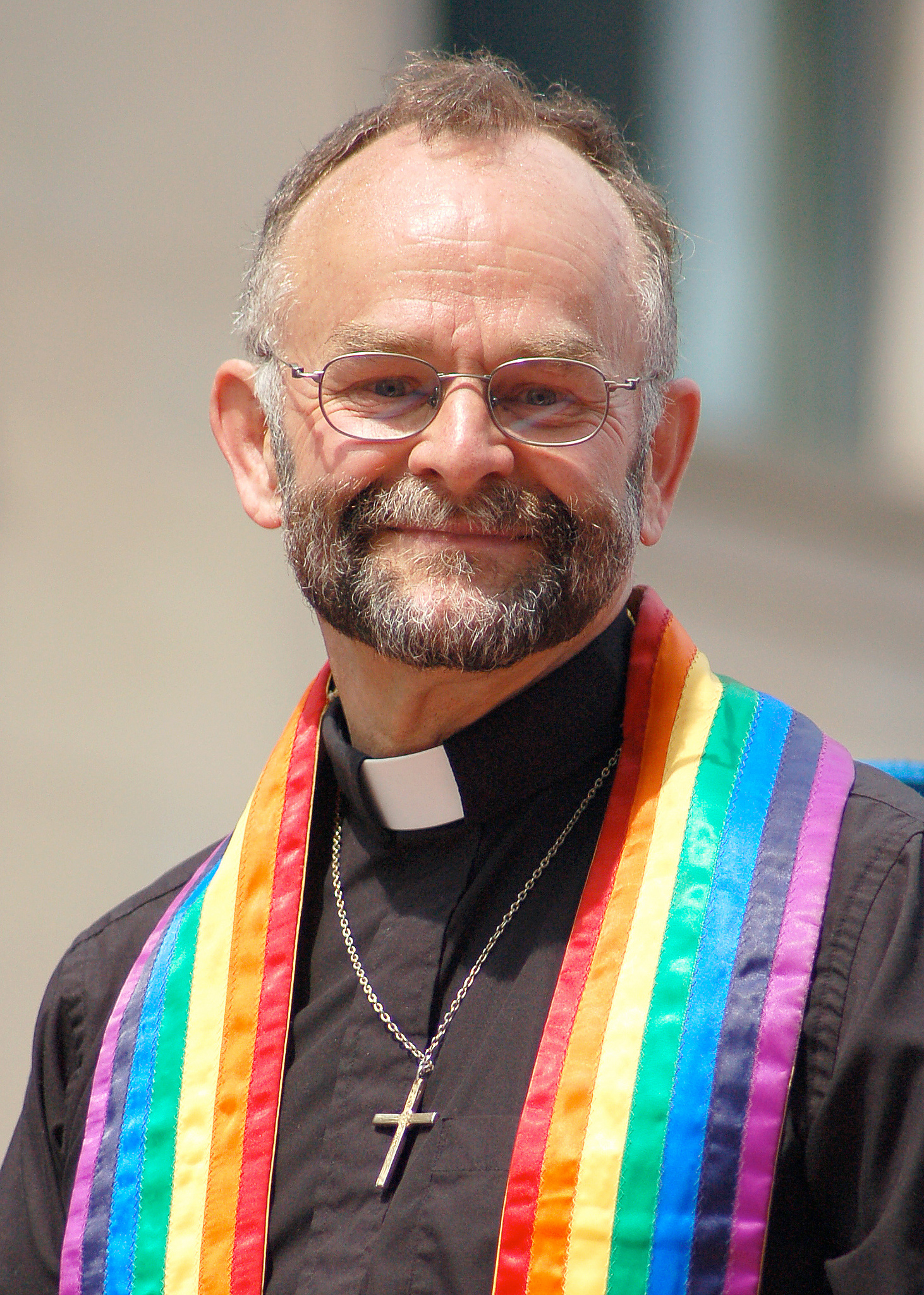 Rebel, activist, pioneer, spiritual leader, educator, and Order of Canada recipient, Rev. Dr. Brent Hawkes of the Metropolitan Community Church of Toronto.